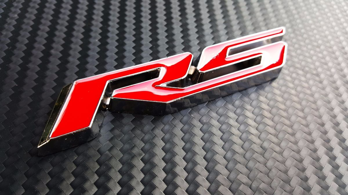 Rs sport